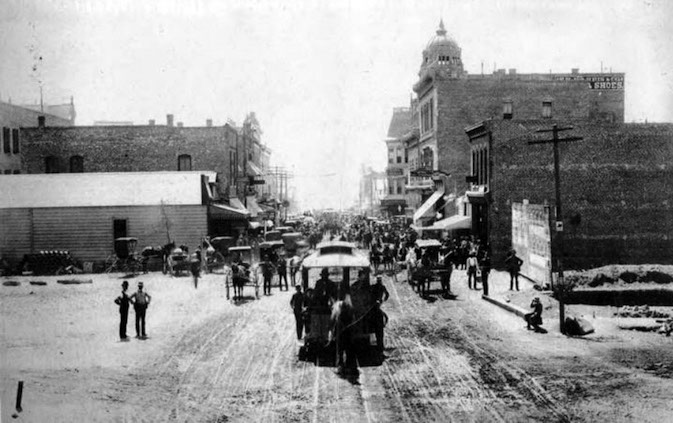 Fair Oaks Avenue in Pasadena, California looking south from Colorado Boulevard, circa 1889.